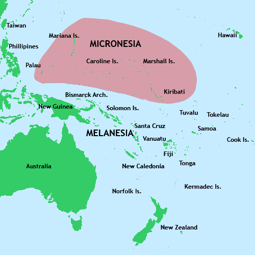 Micronesia, a cultural and geographical area in the Pacific. Micronesia